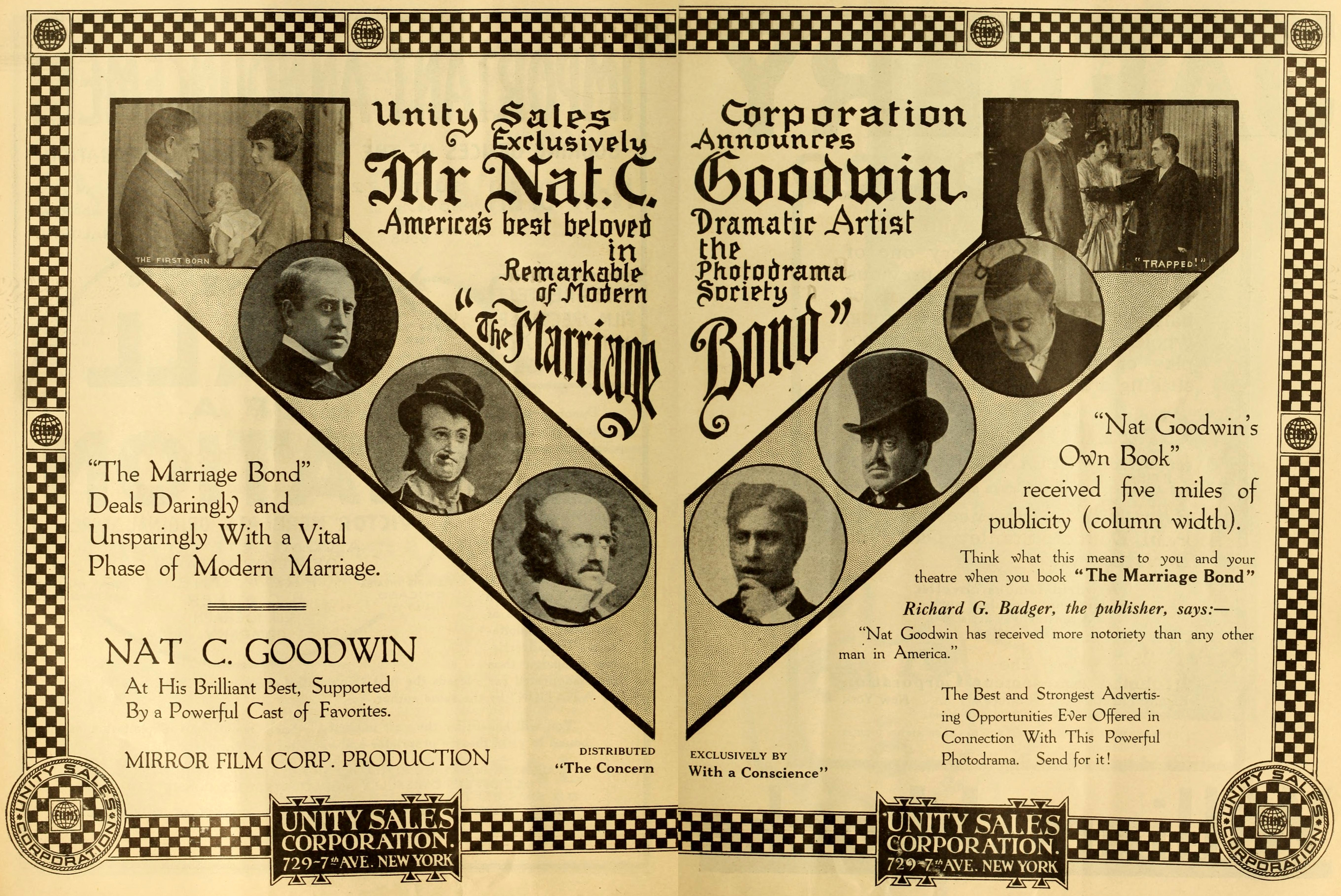 Advertisement in The Moving Picture World for the film The Marriage Bond (1916).